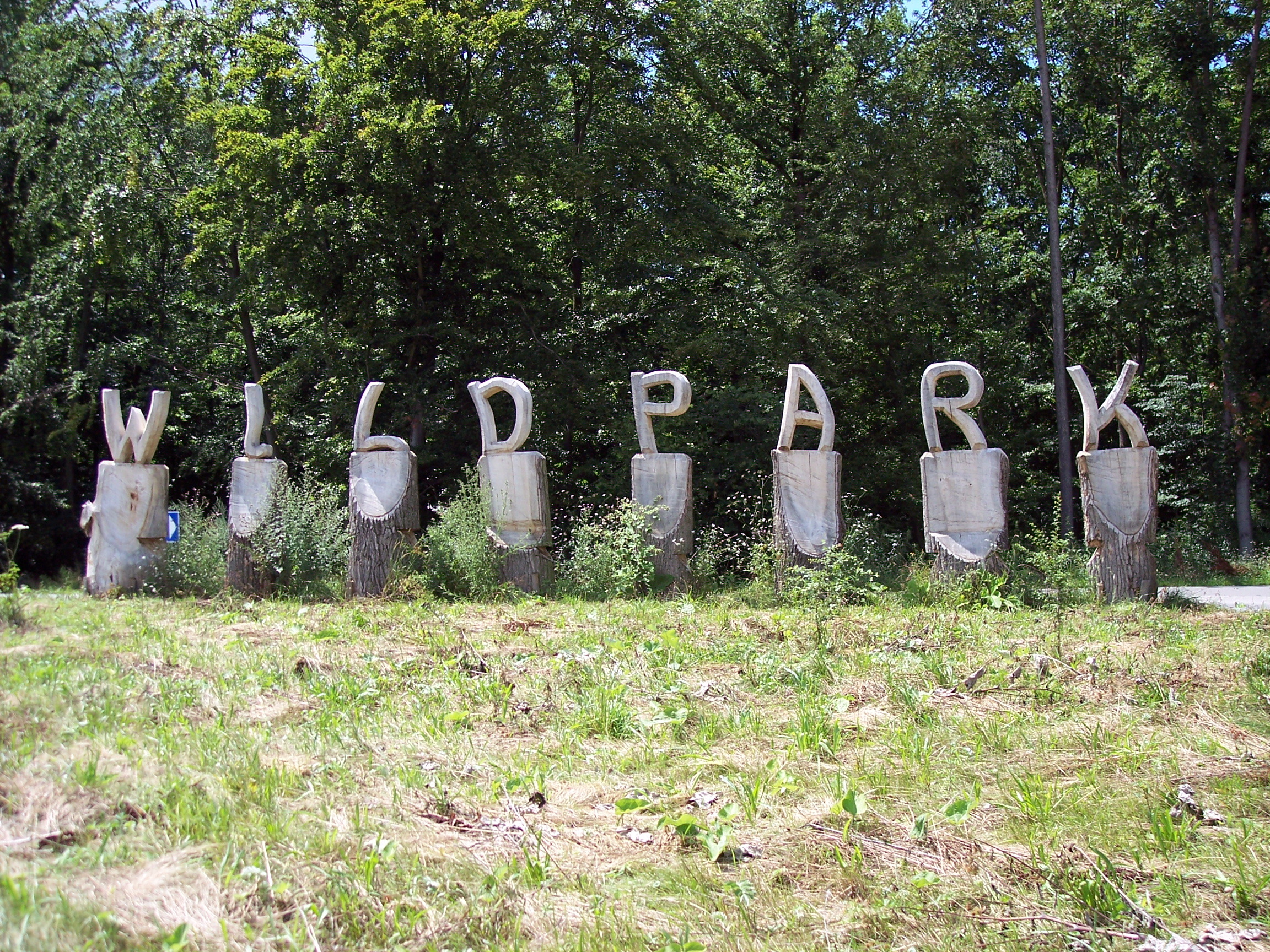 Picture of the entrance to Wildpark Bad Mergentheim. Taken July, 2007.